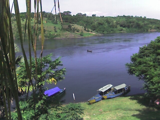 Source of the Nile launches (Victoria Nile river), Lake Victoria, Jinja, Uganda